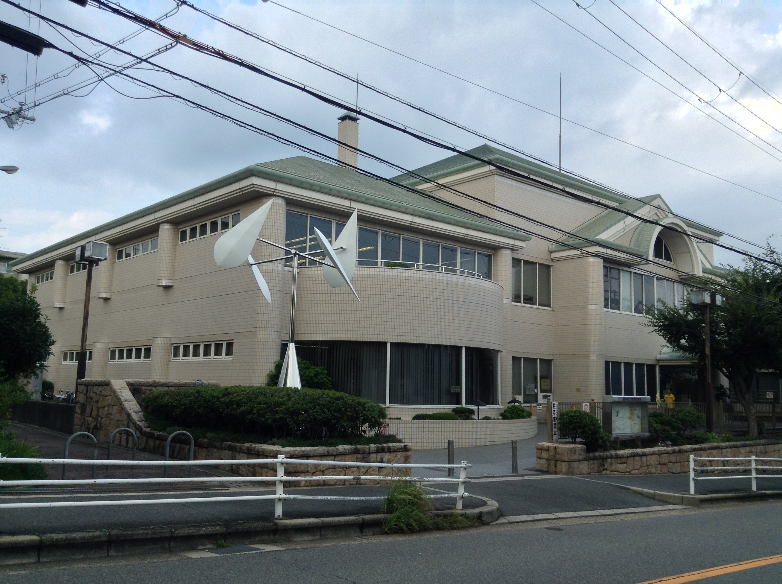 Nobatake Branch of Toyonaka City Library, in Toyonaka, Osaka, Japan.